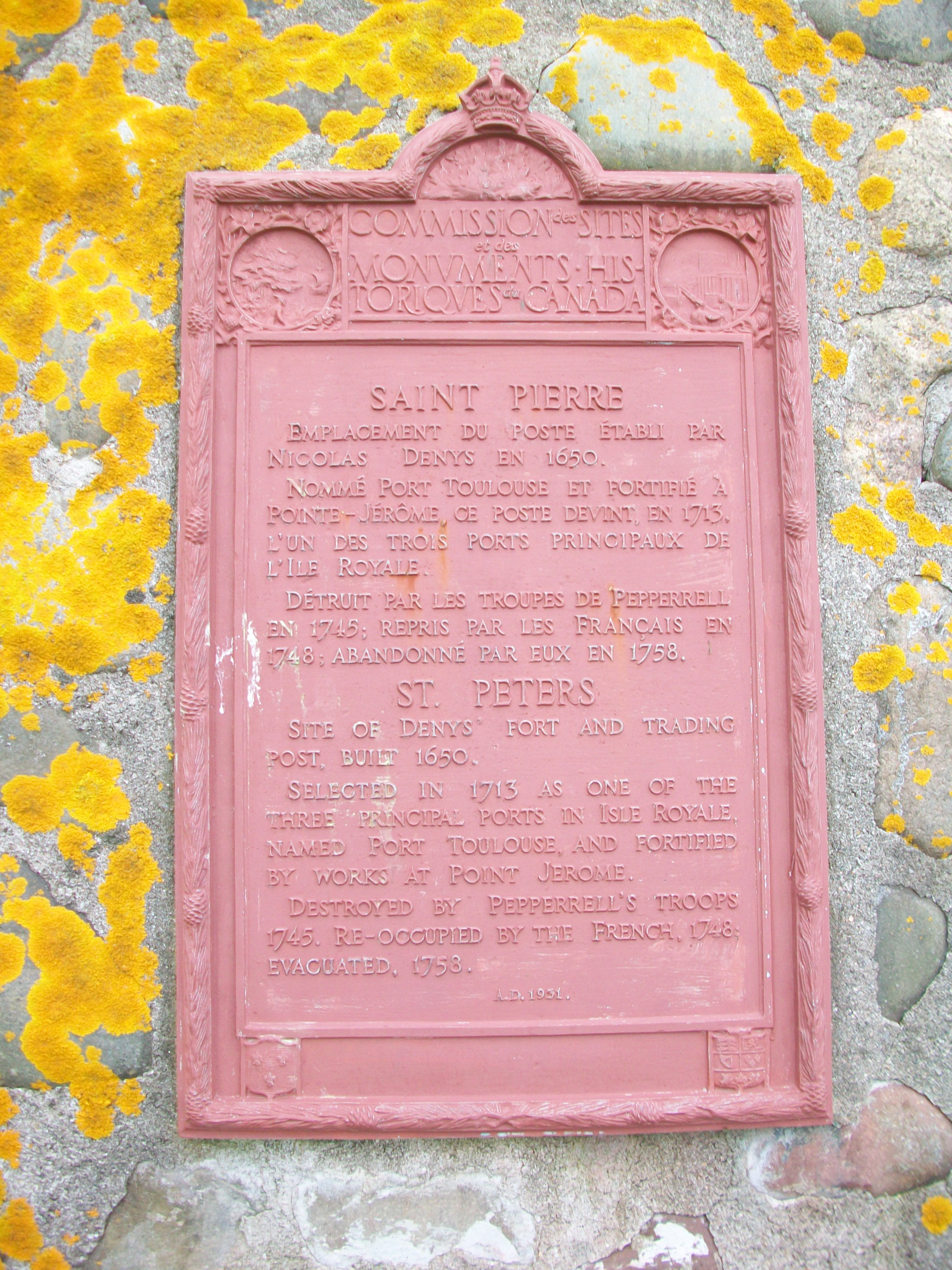 Closeup shot of the plaque on the Nicholas Denys' monument showing the inscription. St. Peter's